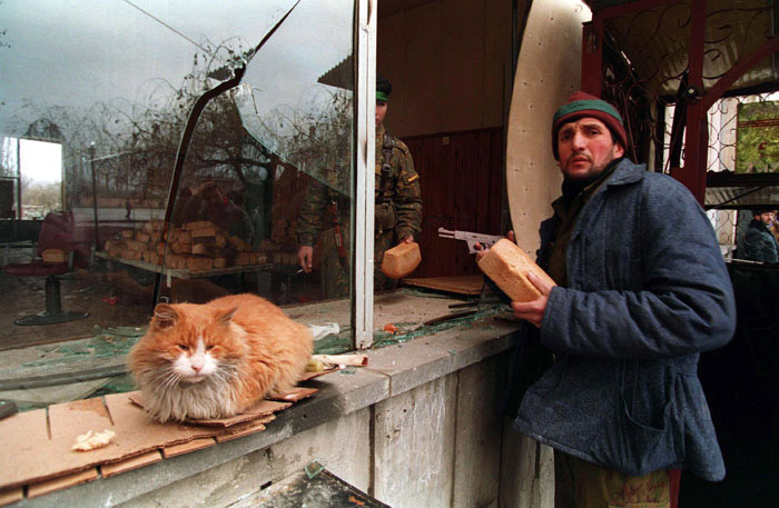 A Chechen man picks up a loaf of bread in Grozny.